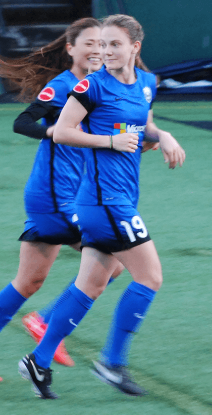 Kristen McNabb (right) and Rumi Utsugi of the Seattle Reign during a match against the Houston Dash, April 22, 2017